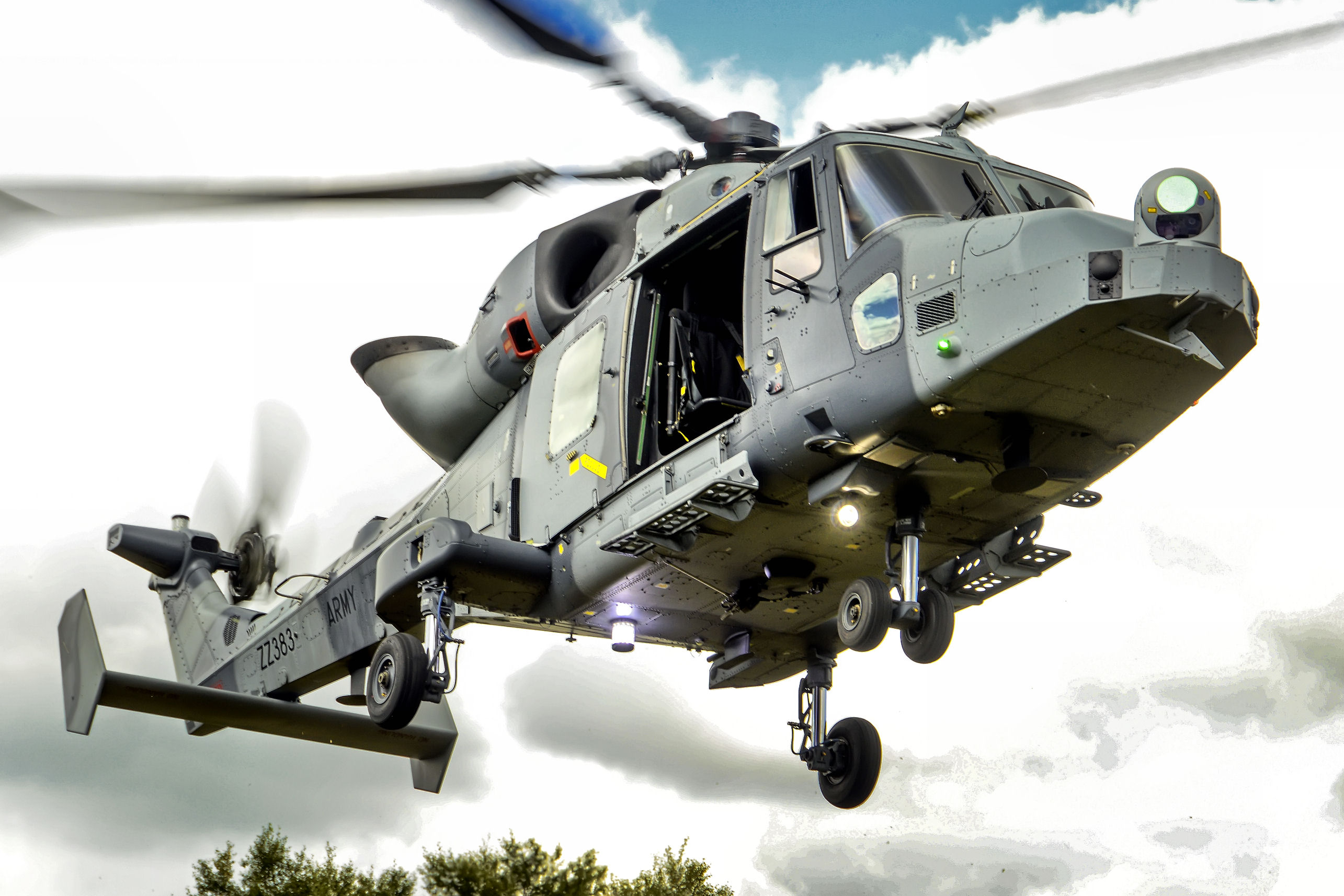 AW159